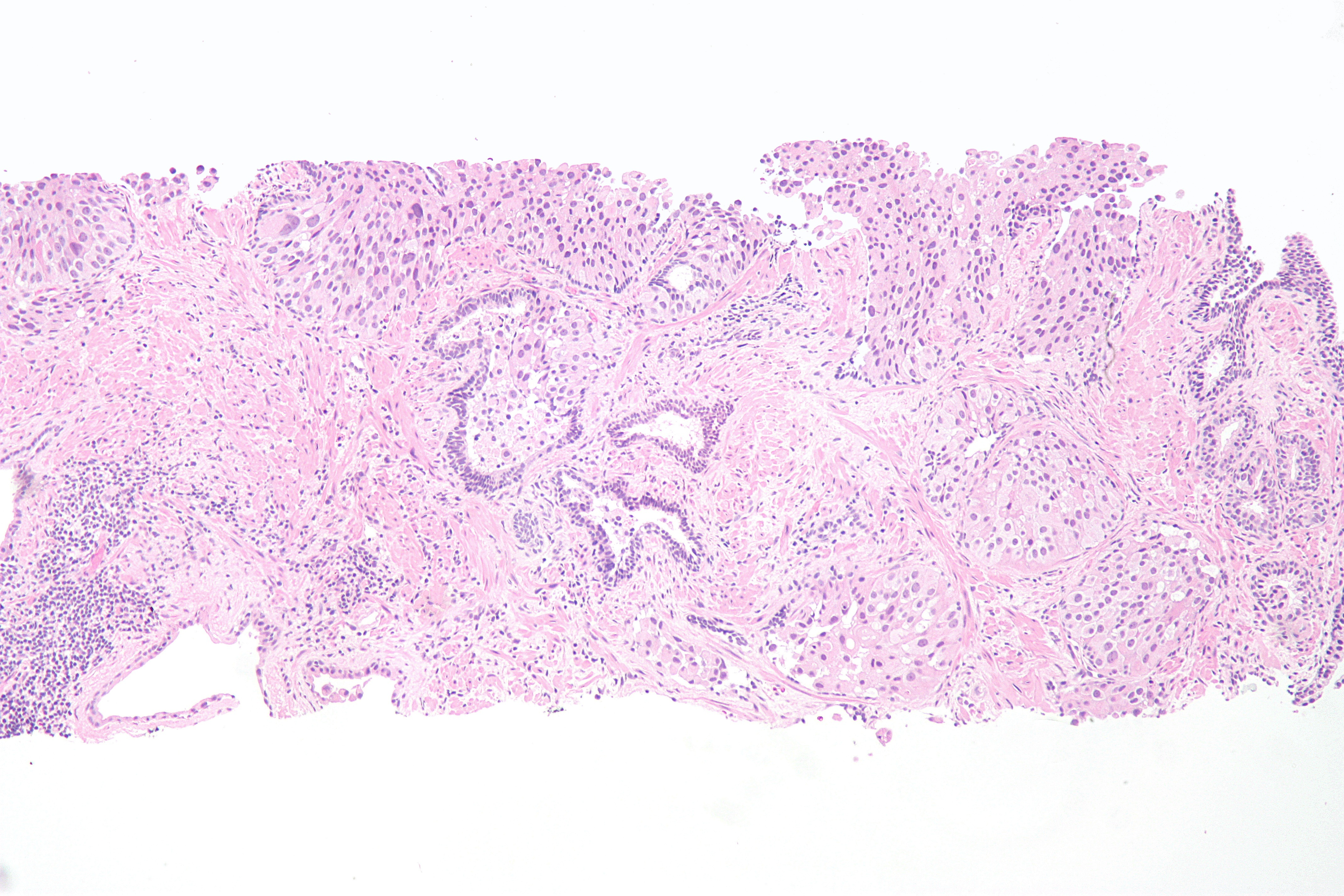 Micrograph of urothelial cell carcinoma of the prostatic urethra on a prostate biopsy. H&E stain. Normal prostatic glands (with two cell layers) are seen on the far right of the image. At the top and centre of the image are nests of urothelial cell carcinoma, characterized by prominent nucleoli and marked variation of nuclear size. Slightly left-of-centre, it is possible to discern two cell populations in a prostatic gland: non-malignant prostatic epithelium with small darker stained nuclei, and neoplastic urothelium, with larger nuclei.